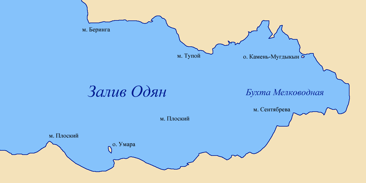 Odyan Bay